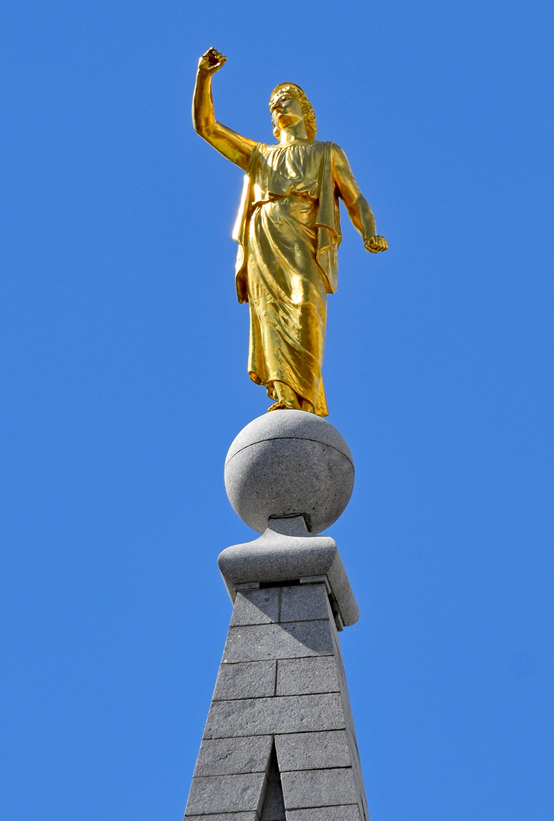 The Angel Moroni statue atop the Salt Lake Temple. The statue is missing its trumpet, which fell during the 2020 Salt Lake City earthquake; the photograph was taken two days after that earthquake.